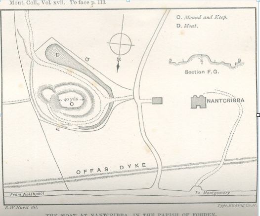 Plan of Nantcribba Castle and House included in article on the Parish of Forden in Montgomeryshire Collections Vol 17 1884